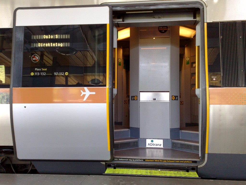 Door of a Airport Express Train Class 71